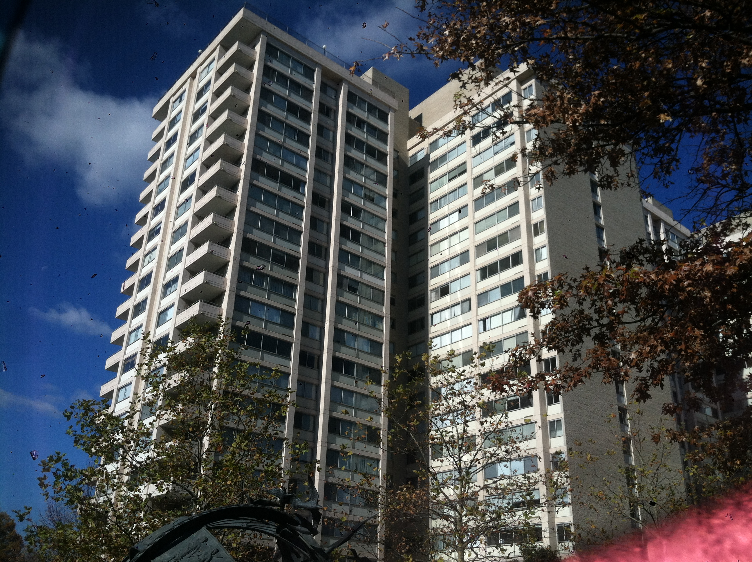 Blue Autumn Skies above the Willoughby of Chevy Chase Condominium